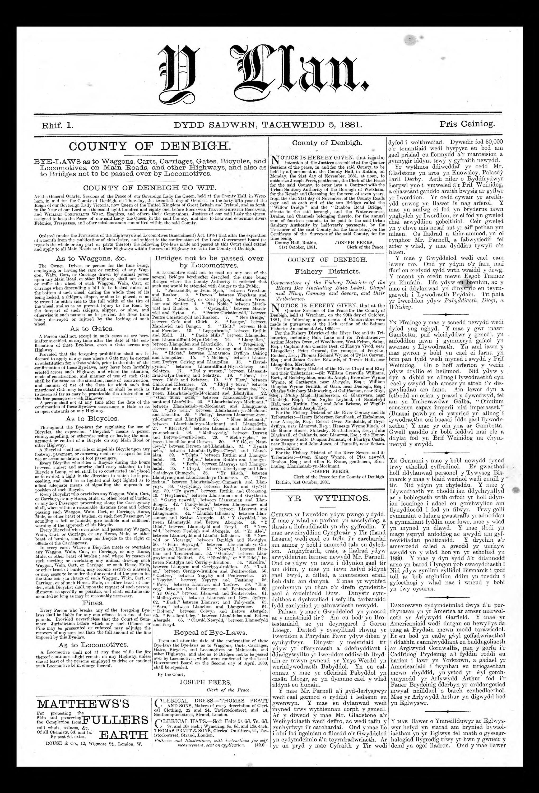 Front page of the earliest surviving copy of the Welsh newspaper Y LlanCymraeg: Tudalen flaen y copi cynharaf sydd yn bodoli o'r papur newydd Cymraeg Y Llan